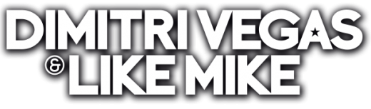 Dimitri Vegas & Like Mike logo